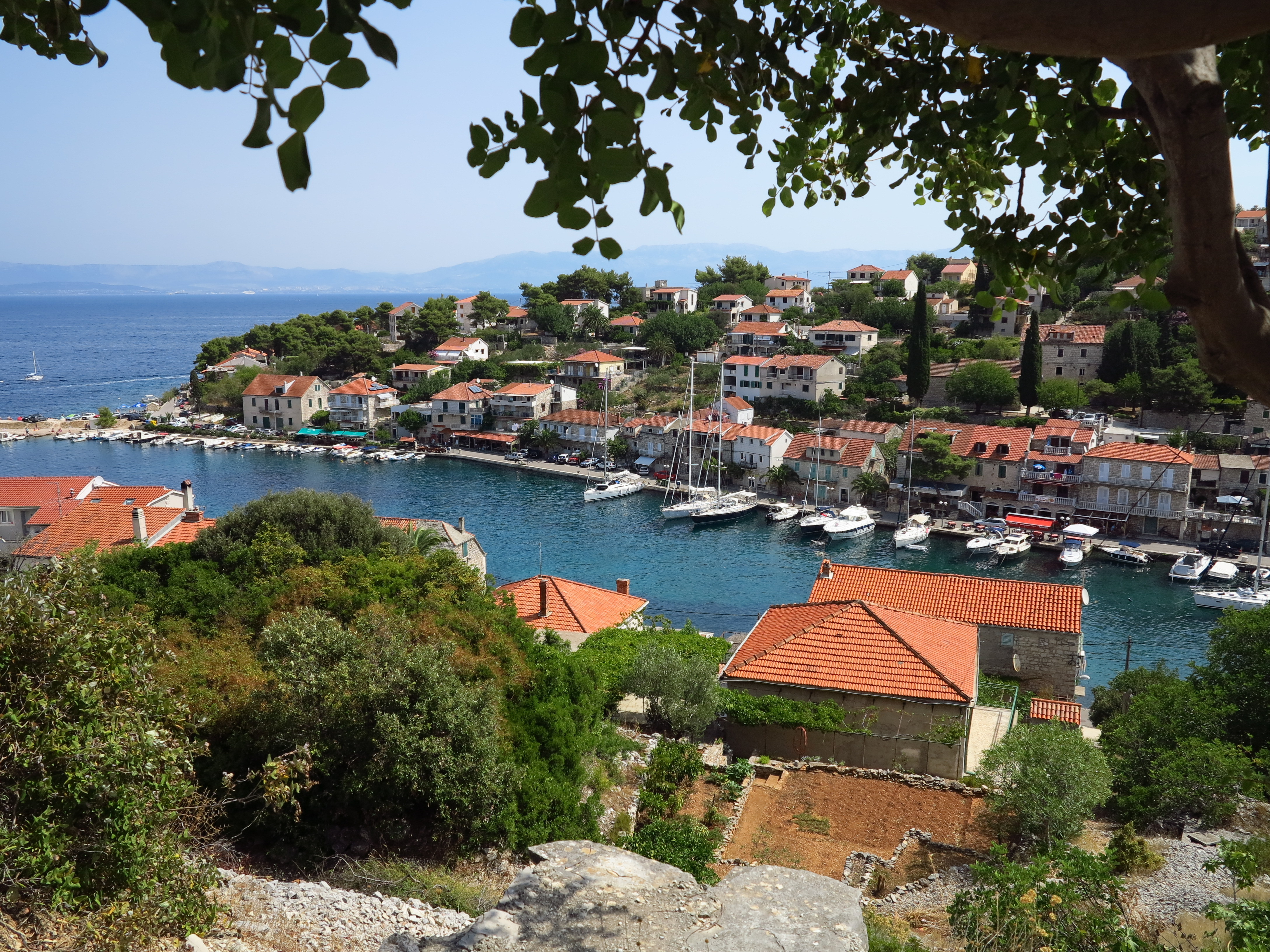 Eastern side of the bay in Stomorska on the island Šolta / Croatia / Adriatic Sea. View to the east.